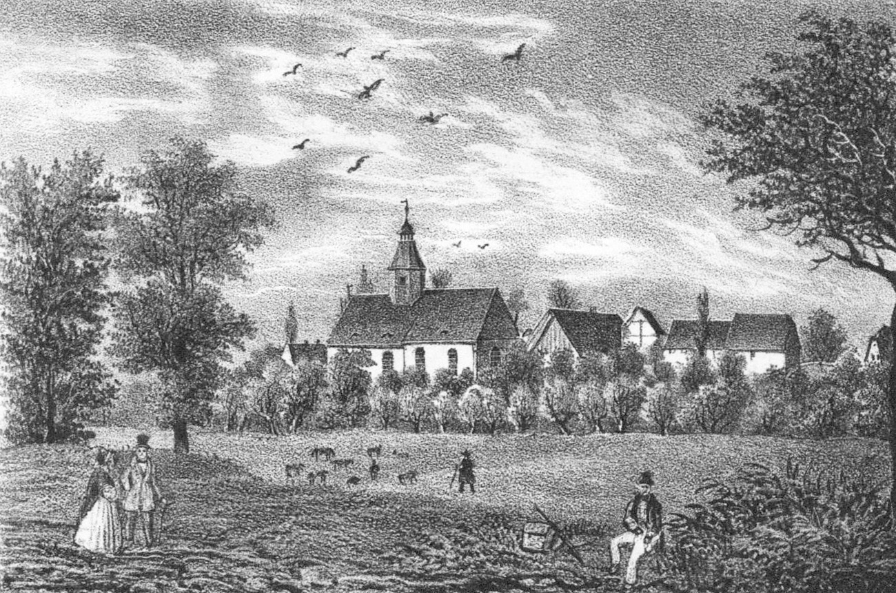 Church in Hänichen (Leipzig-Lützschena)